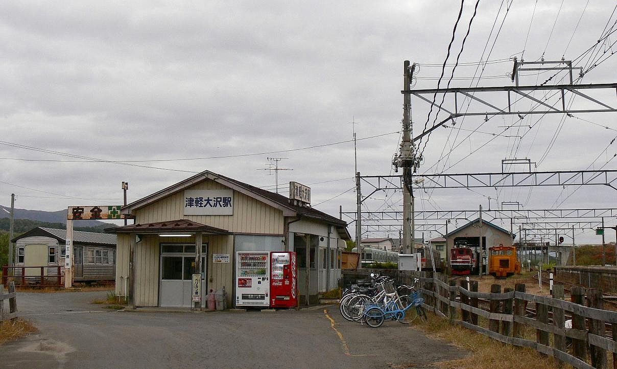 Kōnan Railway Ōwani Line Tugaruōsawa-station(Japan, Aomori prefecture, Hirosaki city). Taking a picture from station plaza. See also Ja:津軽大沢駅 for more information(written in Japanese). 弘南鉄道大鰐線の津軽大沢駅。 駅舎の奥に大鰐線の車庫がある。駅前広場より撮影。 駅の所在地は青森県弘前市。